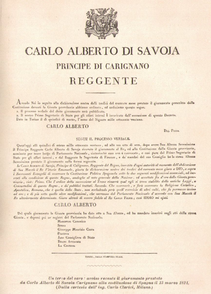 Notice of the oath to the spanish constitution by Carlo Alberto of Savoy, March 13, 1821.